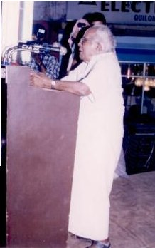 EMS talking at Kollam